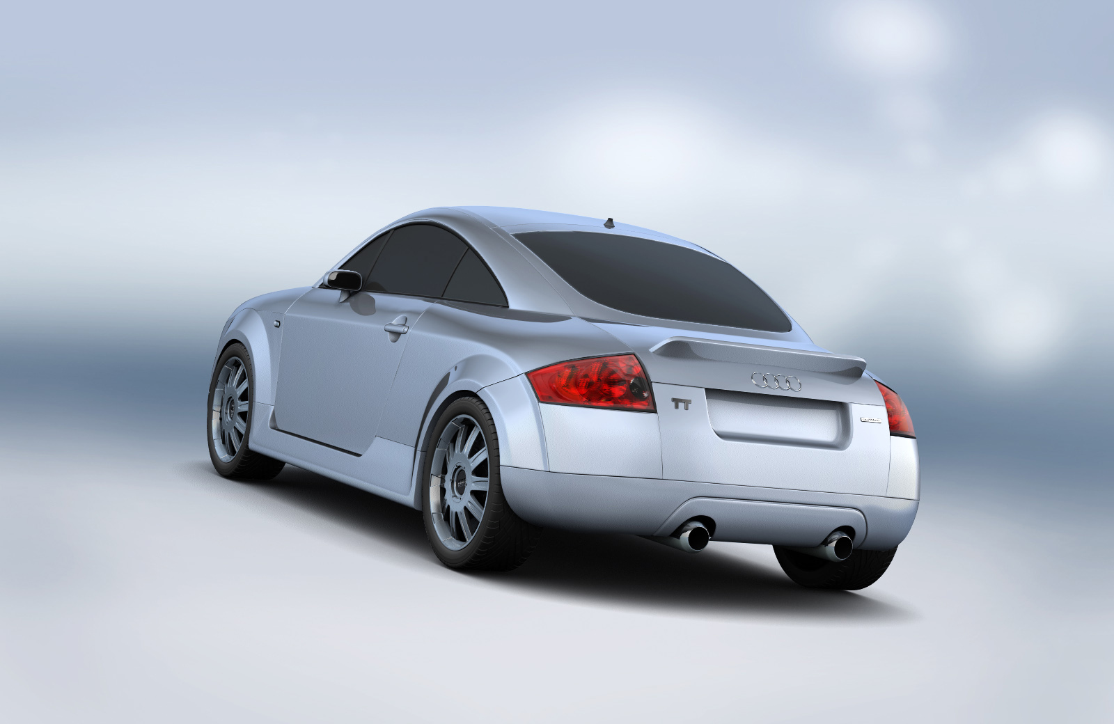 3D render of an Audi TT in Anim8or.